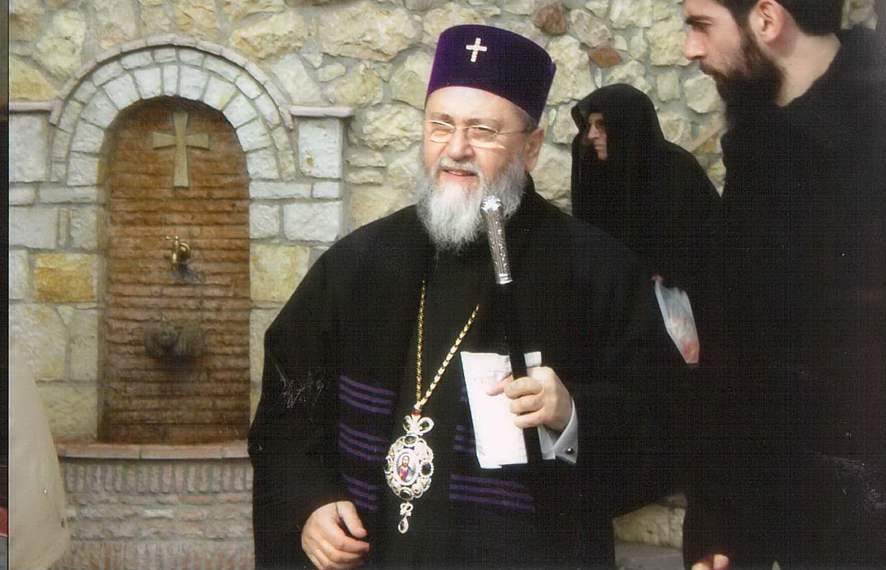 His Reverence bishop of Corinth Dionysios Mantalos at the monastery of saint Patapios, at the annual celebration of the saint, 8 December 2012.